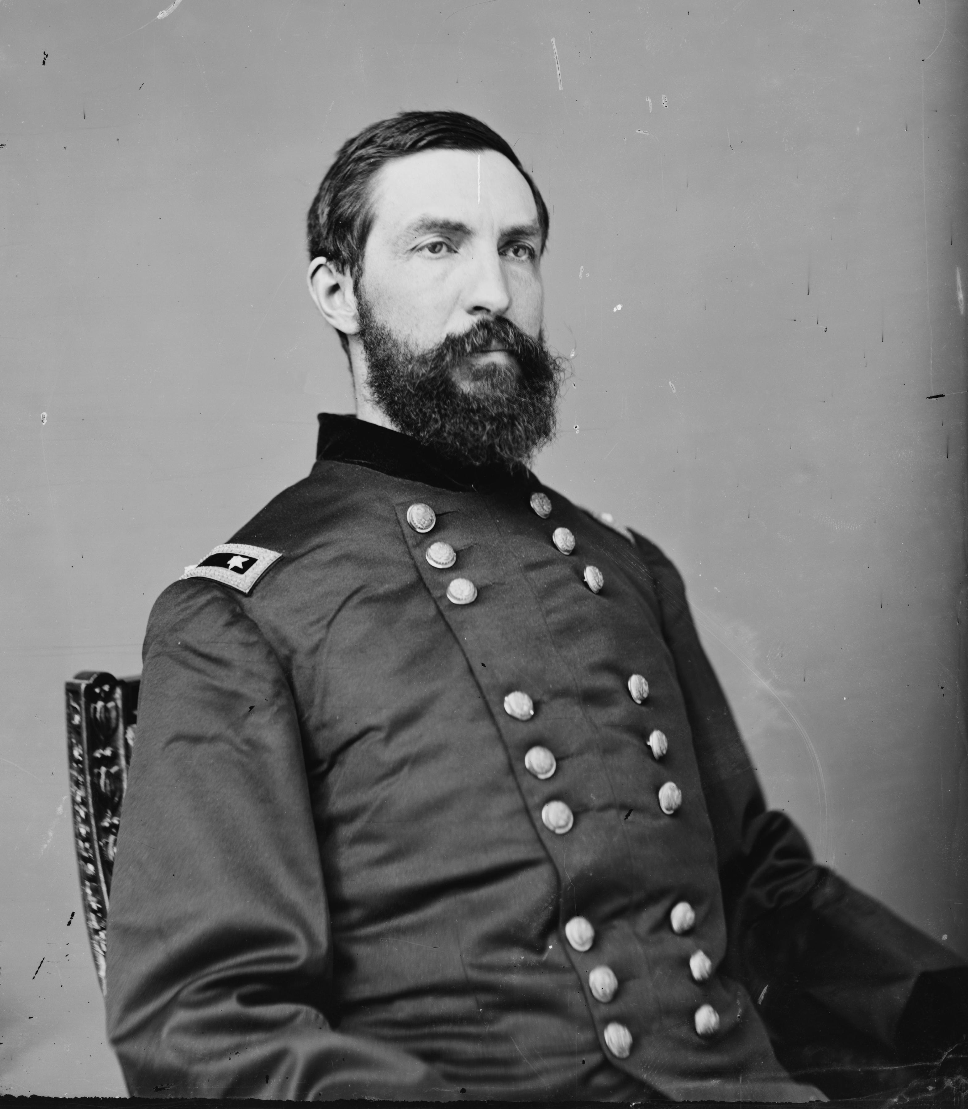 Christopher Columbus Andrews (1829-1922). Library of Congress description: "General C. C. Andrews"